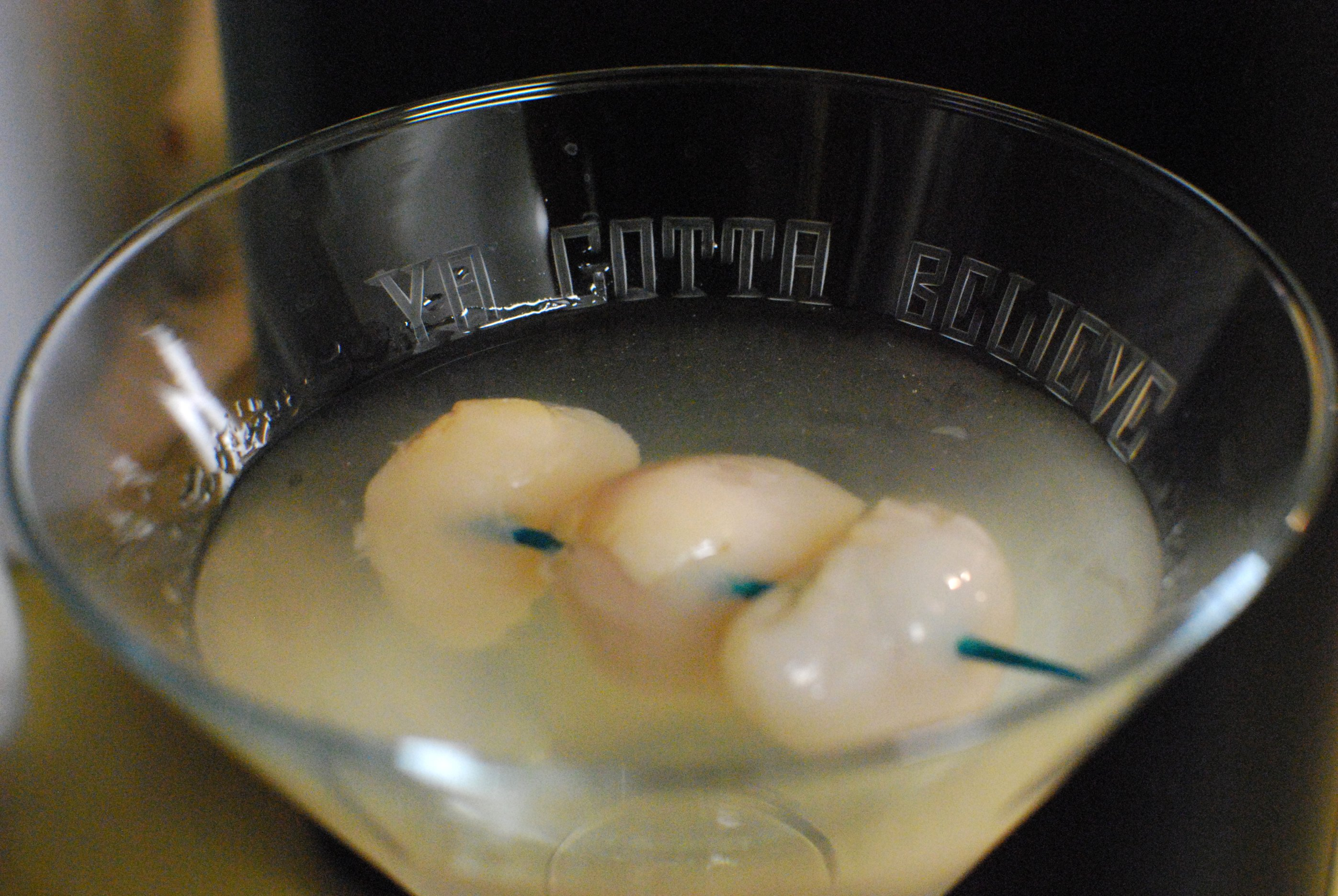 Lychee Martini